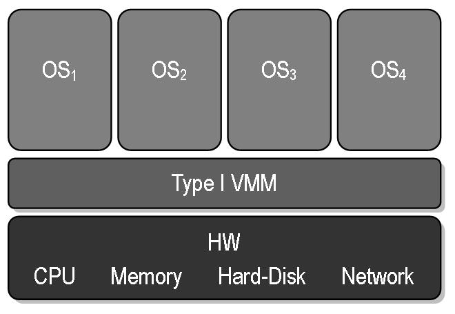 Virtual Machine Monitor Type I